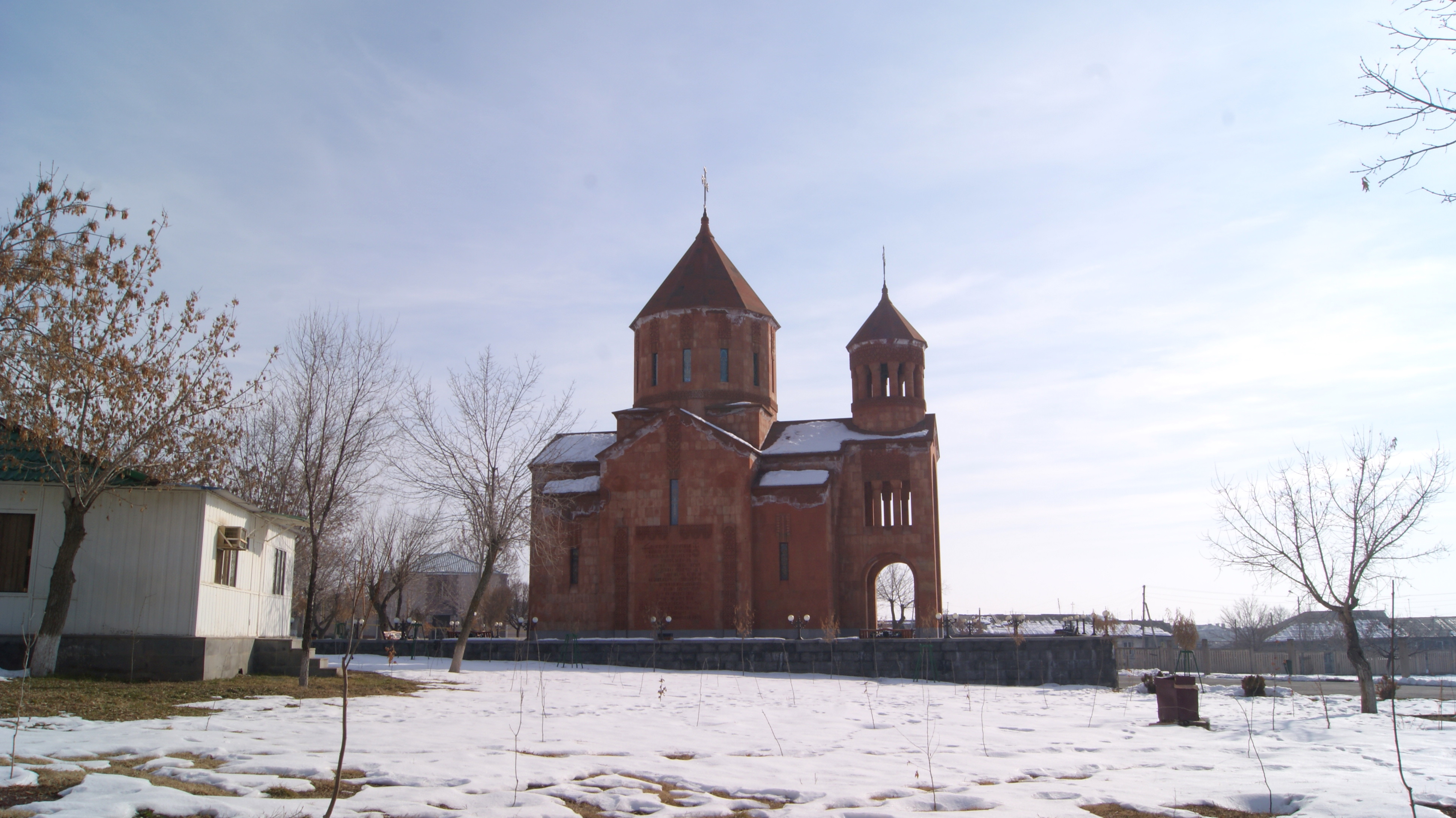 Holy Martyrs Church in Numarashen